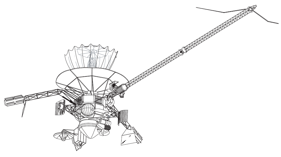 Drawing of Galileo